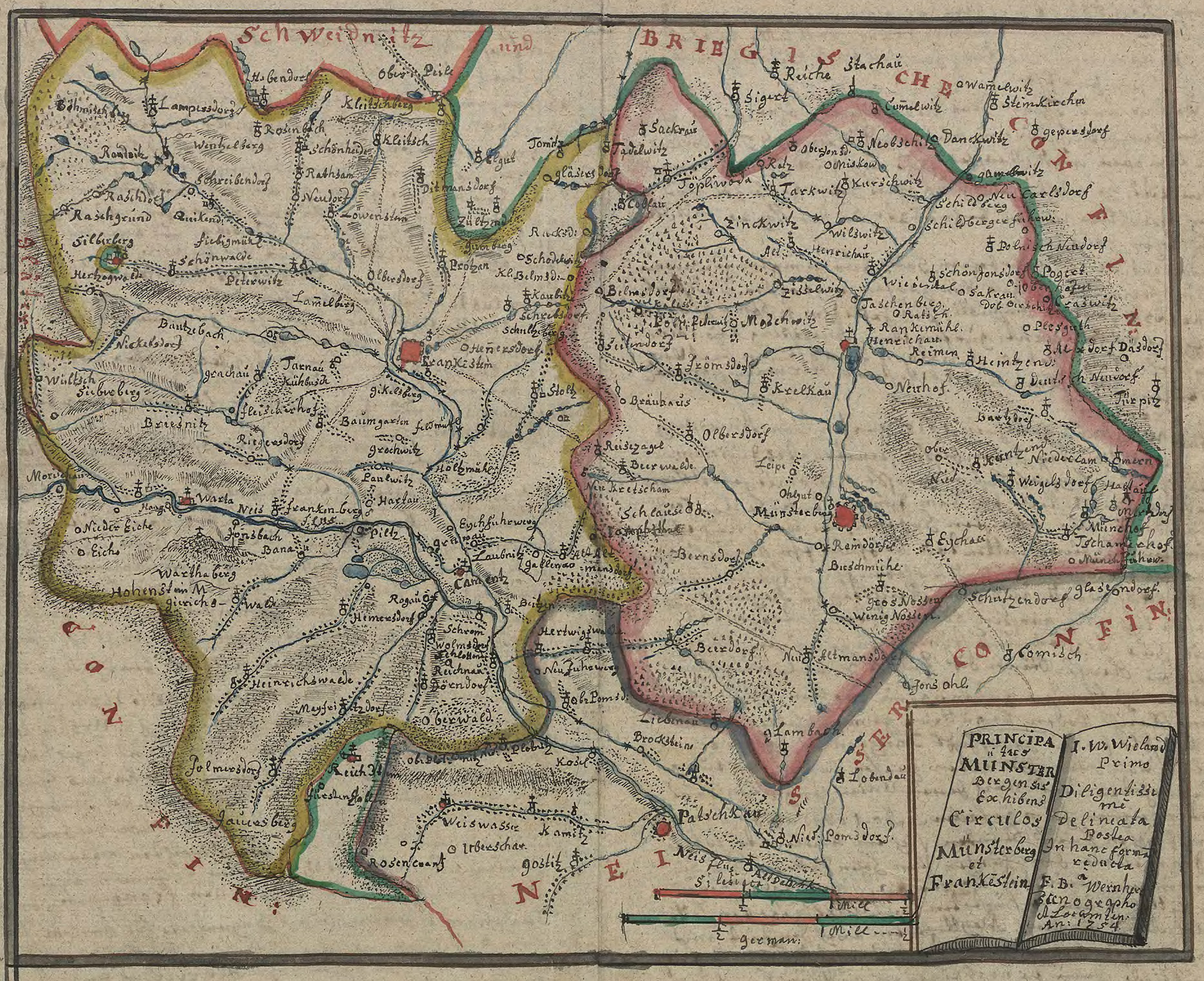 Duchy of Münsterberg, map by Friedrich Bernhard Werner